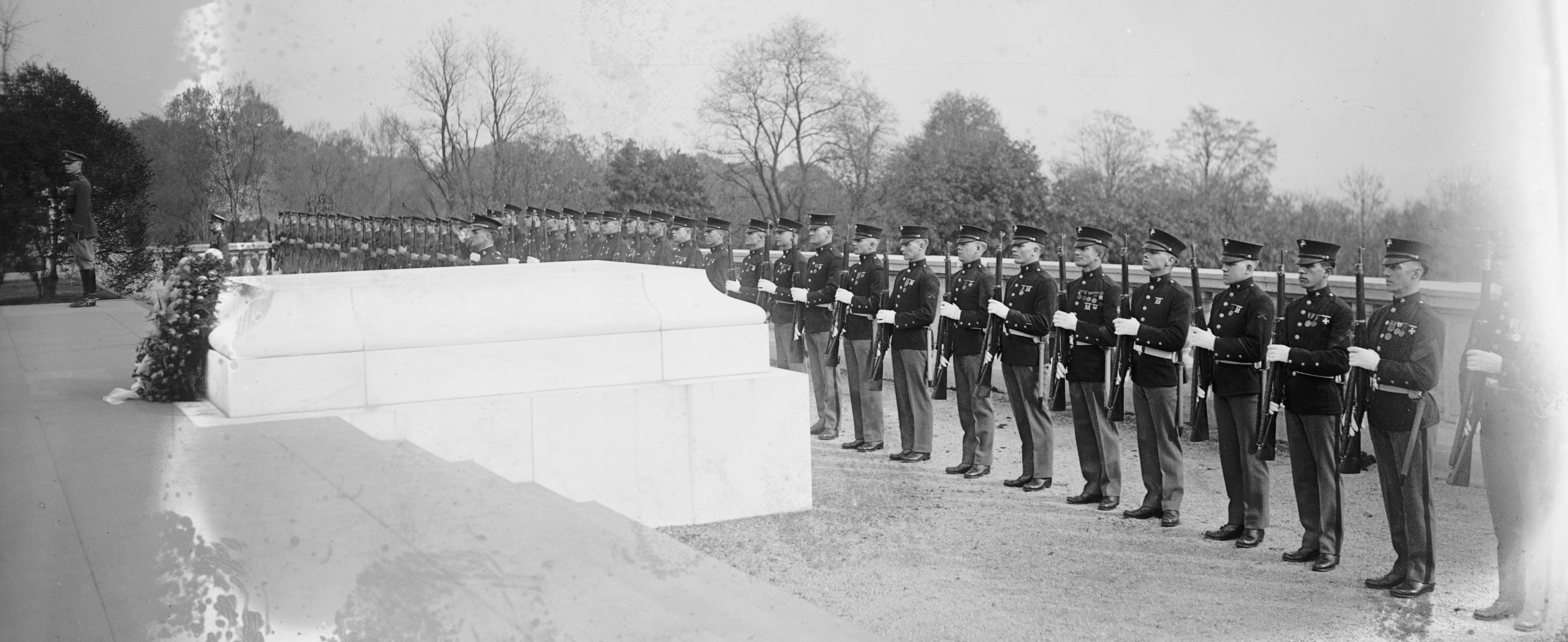 Tomb of the Unknown Soldier, Arlington National Cemetery, on 11 November 1922. View is of the south side of the Tomb looking north. Was replaced in 1931 by the present marble Tomb